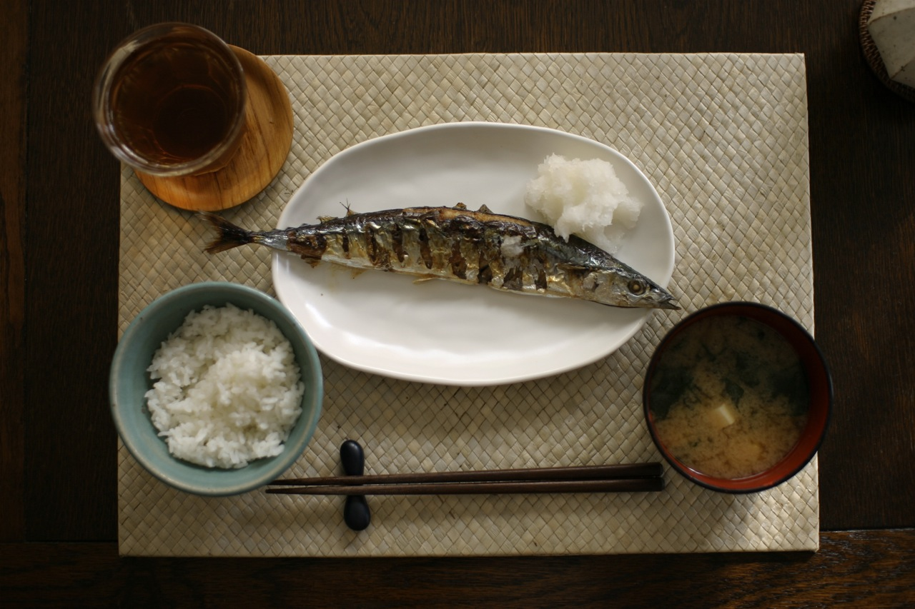 and chopsticks